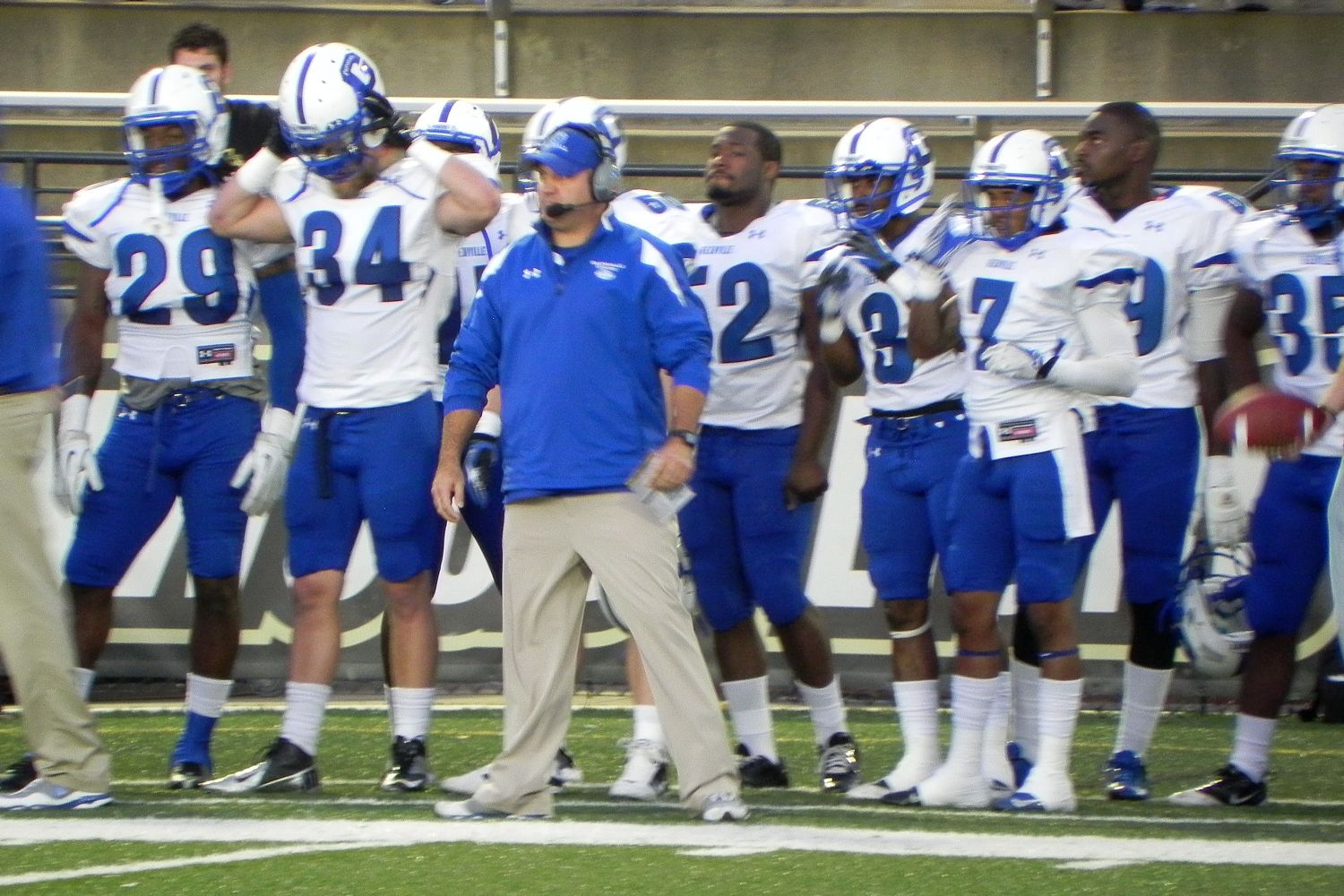 Glenville State Pioneers football team Sept 2009